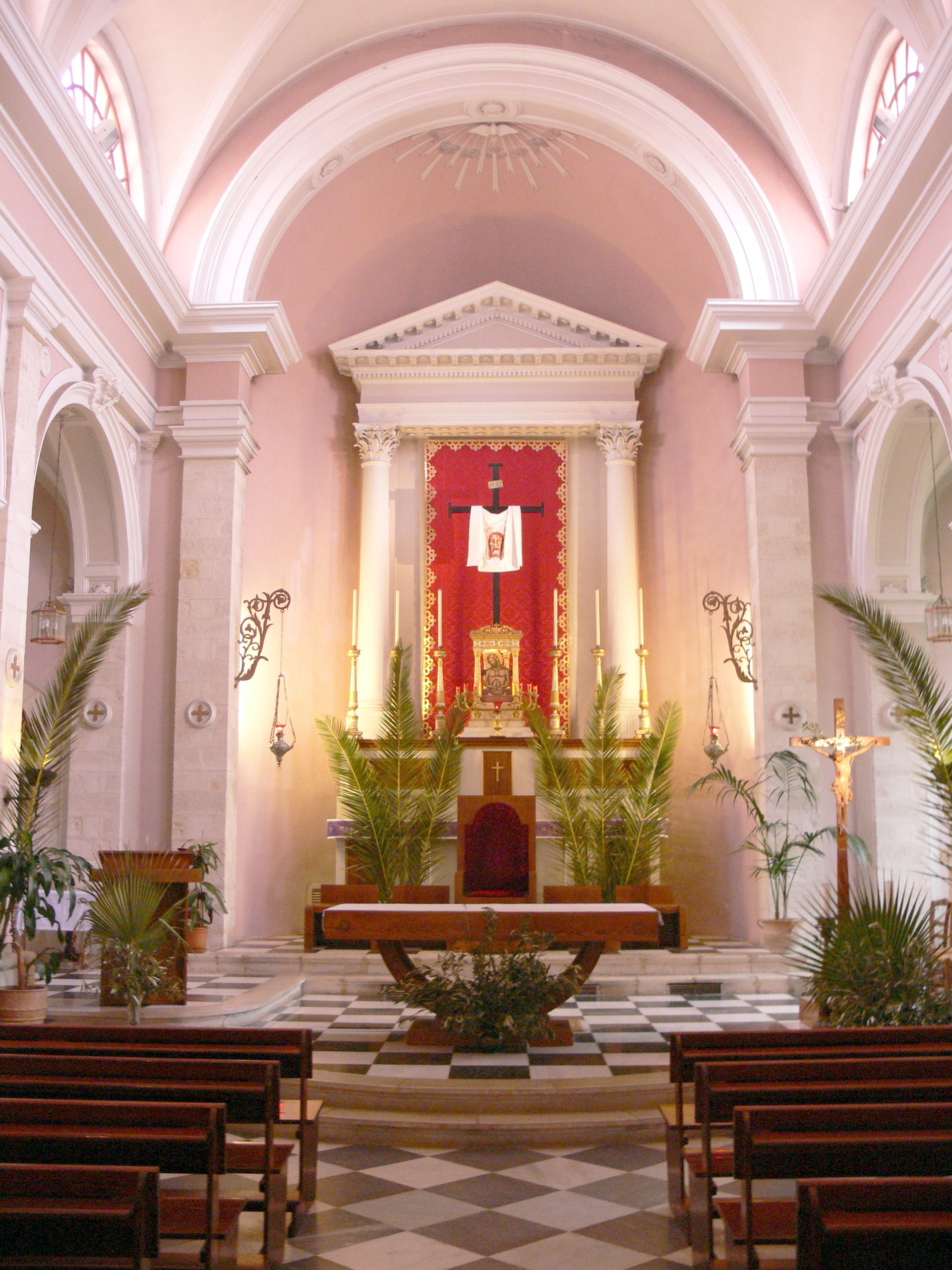 Catholic church of Chania ( Crete ). Church interior with palm fronds as Easter decoration.